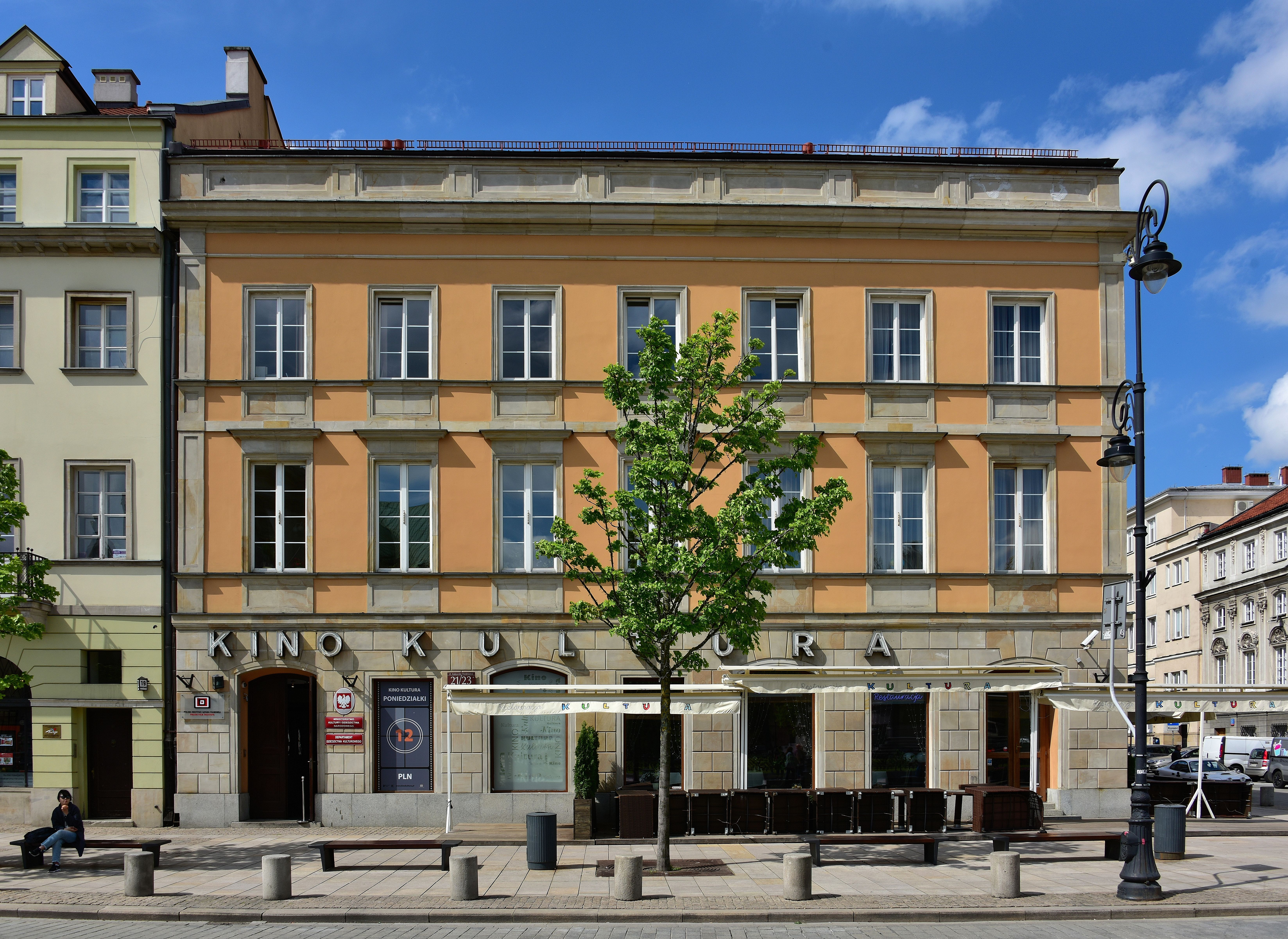 Former Seat of the Polish Film Institute at 21/23 Krakowskie Przedmieście Street in Warsaw